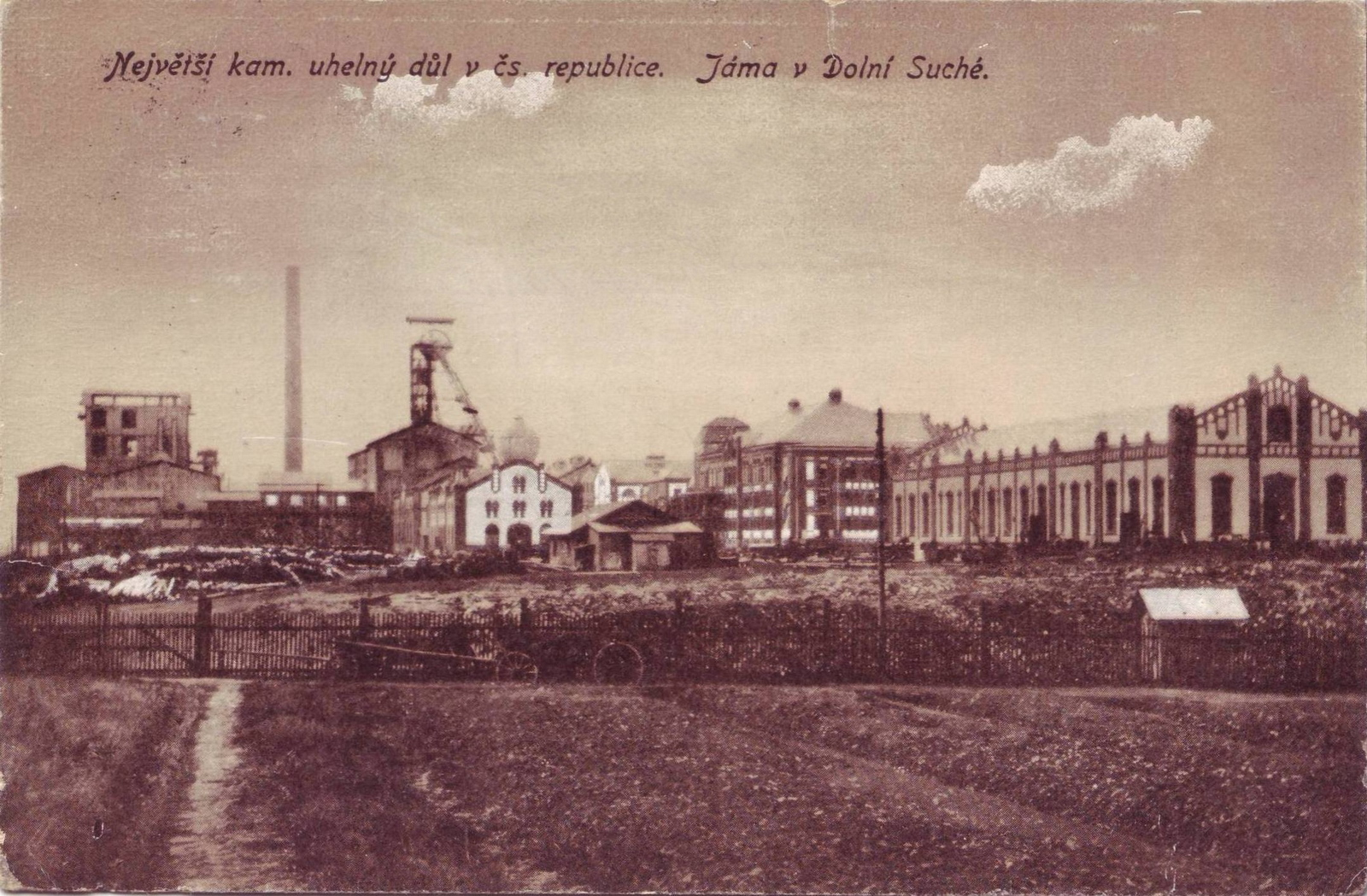 Dolní Suchá Colliery